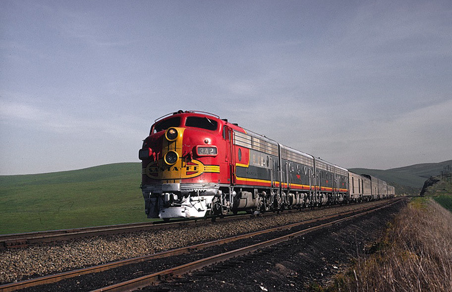 The San Francisco Chief at Collier (Hercules) in March 1971